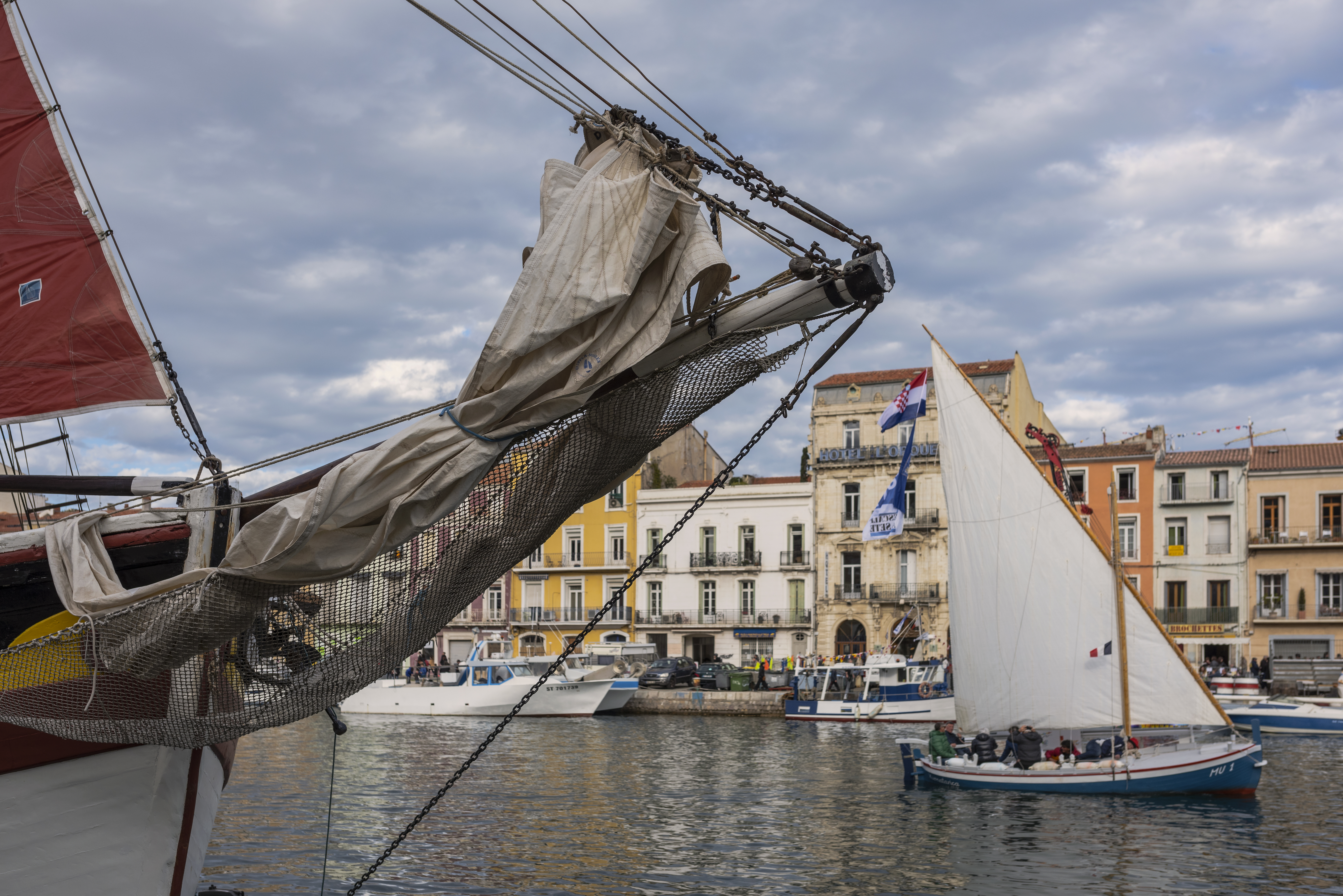 The bowsprit of the Vieux Crabe (ship, 1951). During the event "Escale à Sète 2016". Sète, Hérault, France